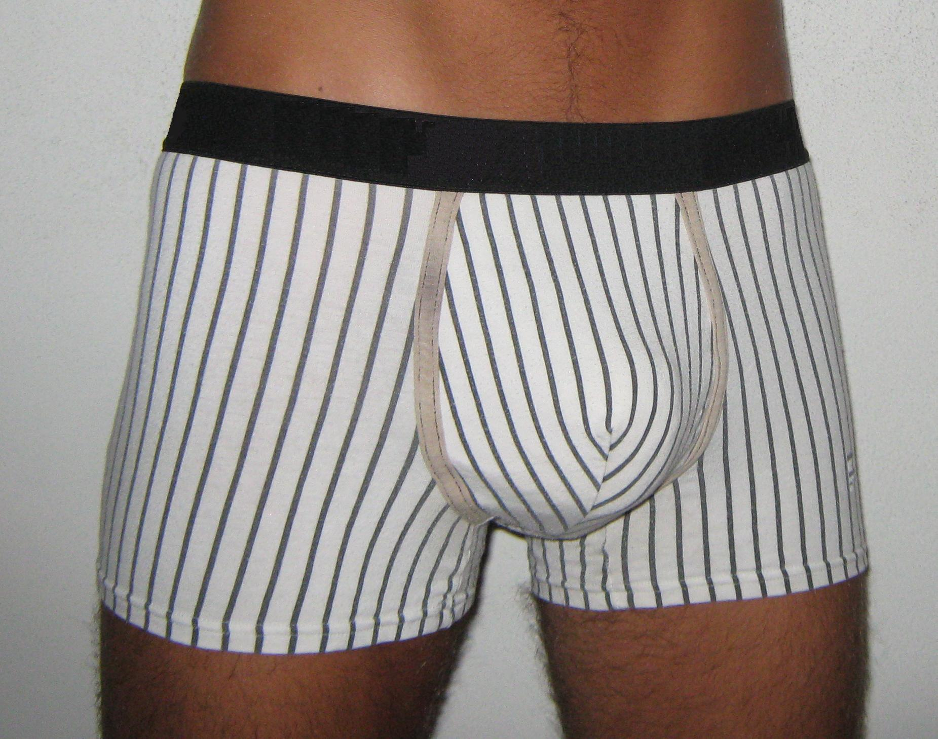 Boy wearing boxer briefs